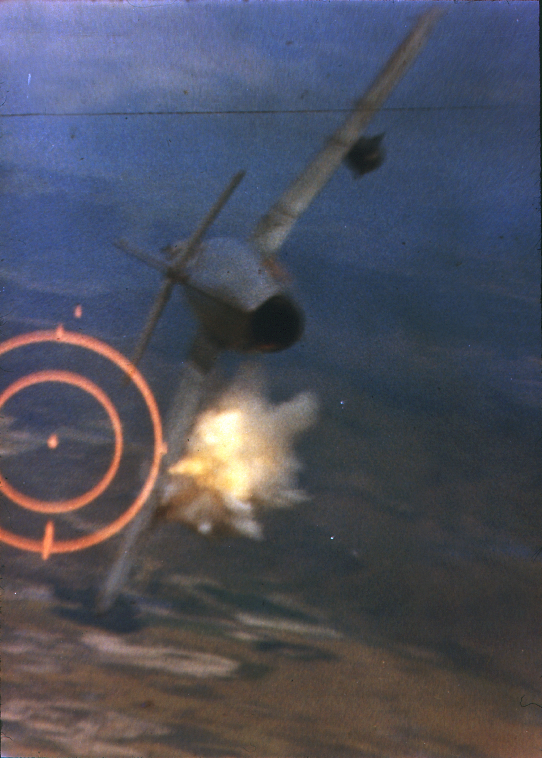 A North Vietnamese Mikoyan-Gurevich MiG-17 is hit by 20 mm shells from a U.S. Air Force Republic F-105D Thunderchief piloted by Major Ralph Kuster Jr. from the 469th Tactical Fighter Squadron, 388th Tactical Figther Wing, on 3 June 1967.